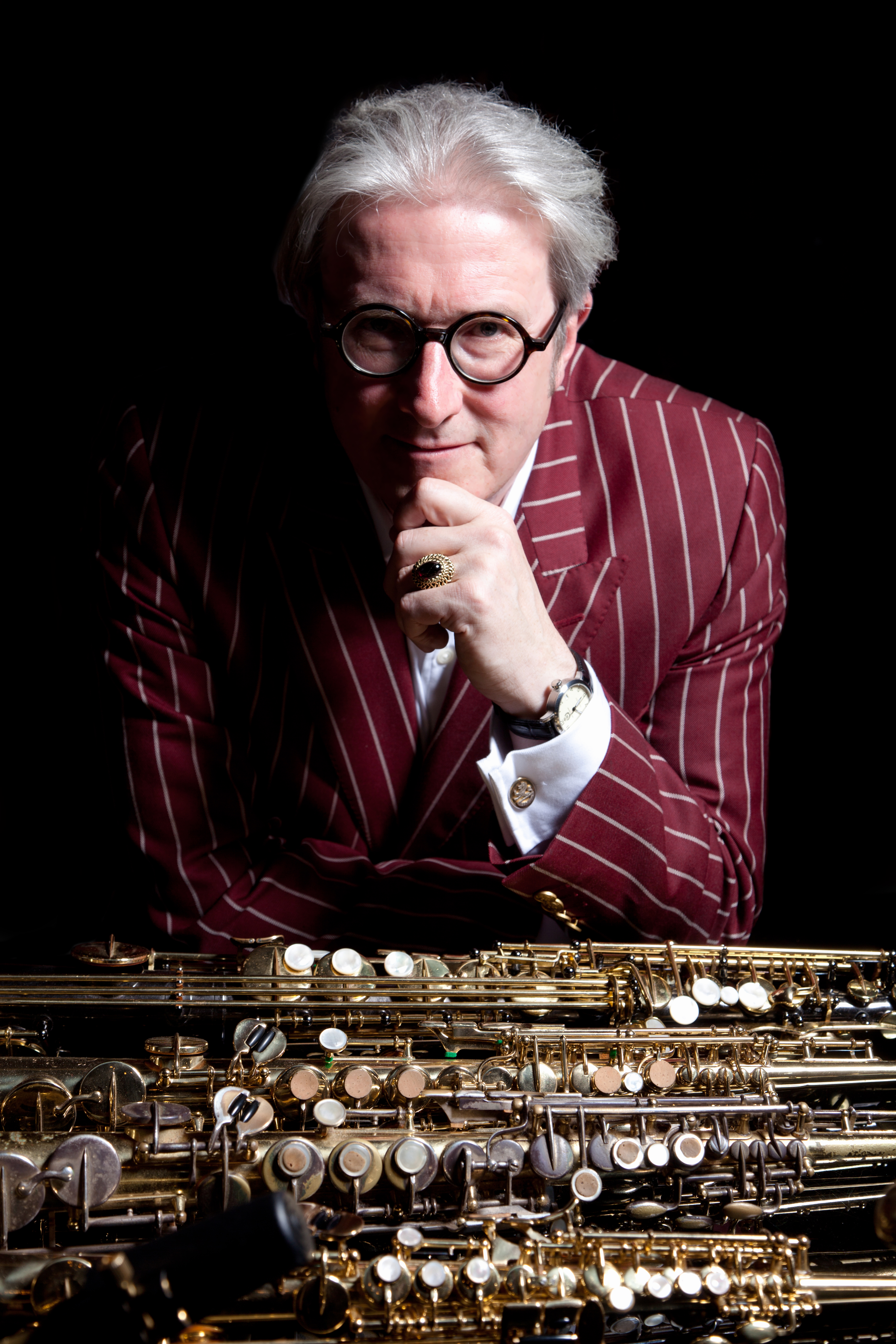 Portrait of John Harle shot by Photographer Ian Dingle